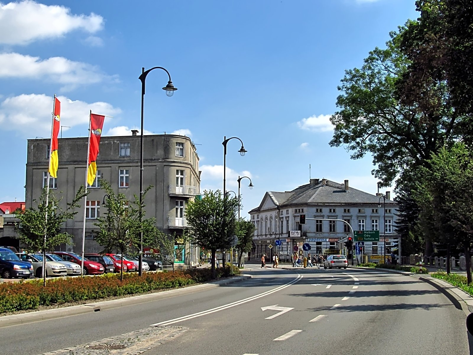 Main intersection